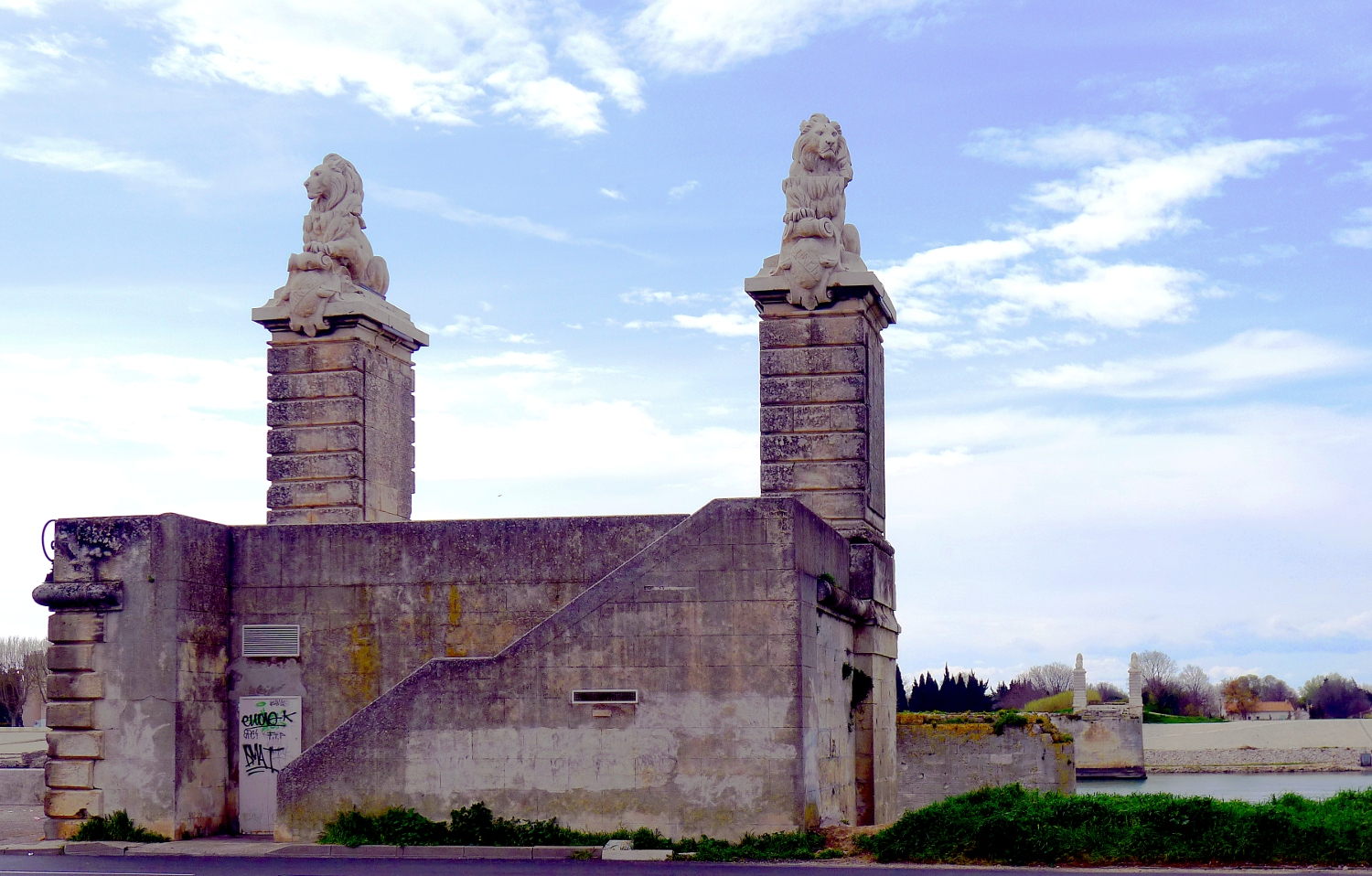 Old railway bridge - Arles (Bouches-du-Rhône, France)